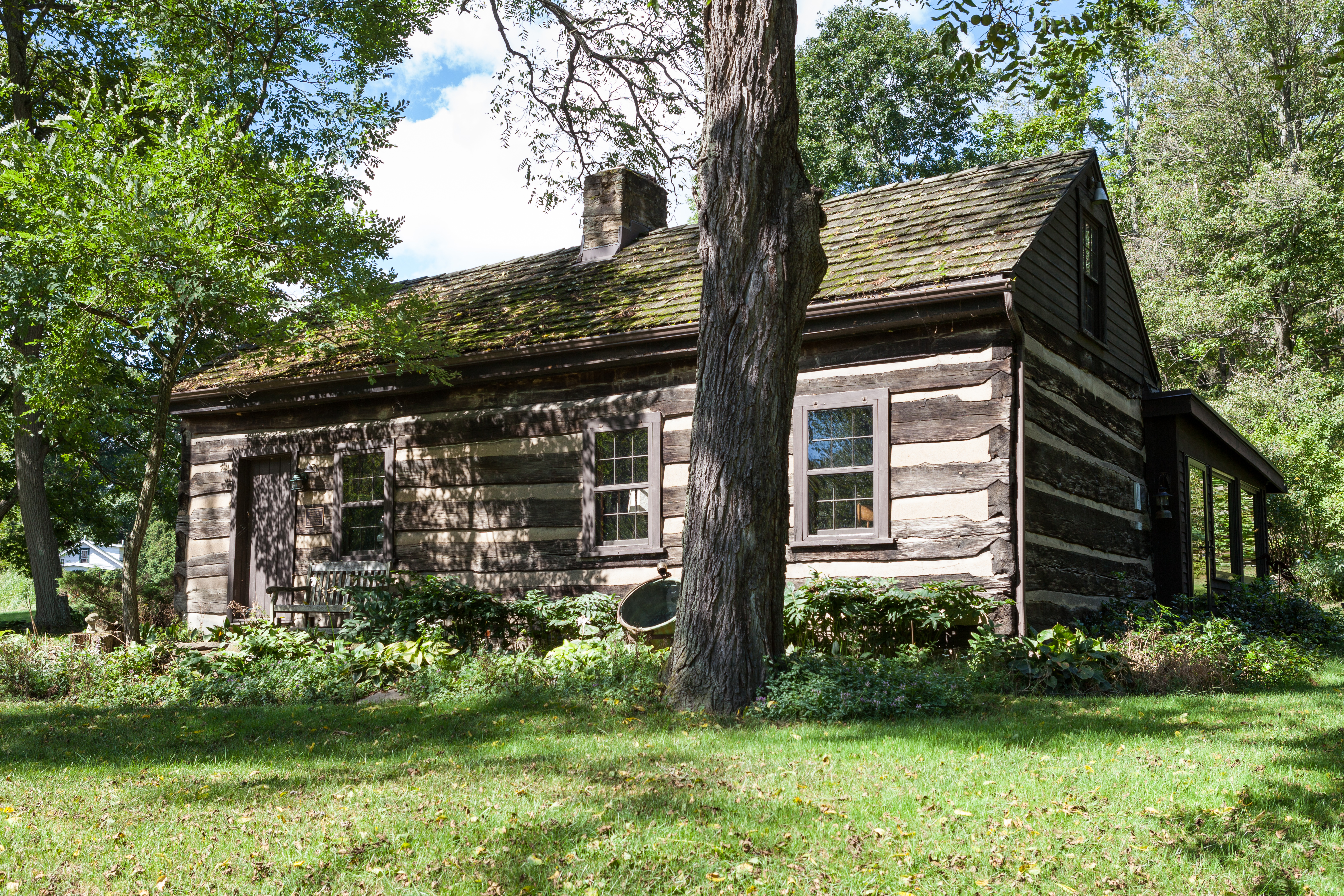 Stephenson-Campbell House, a historic log house built in 1778 and restored in 1928. The south and east sides.